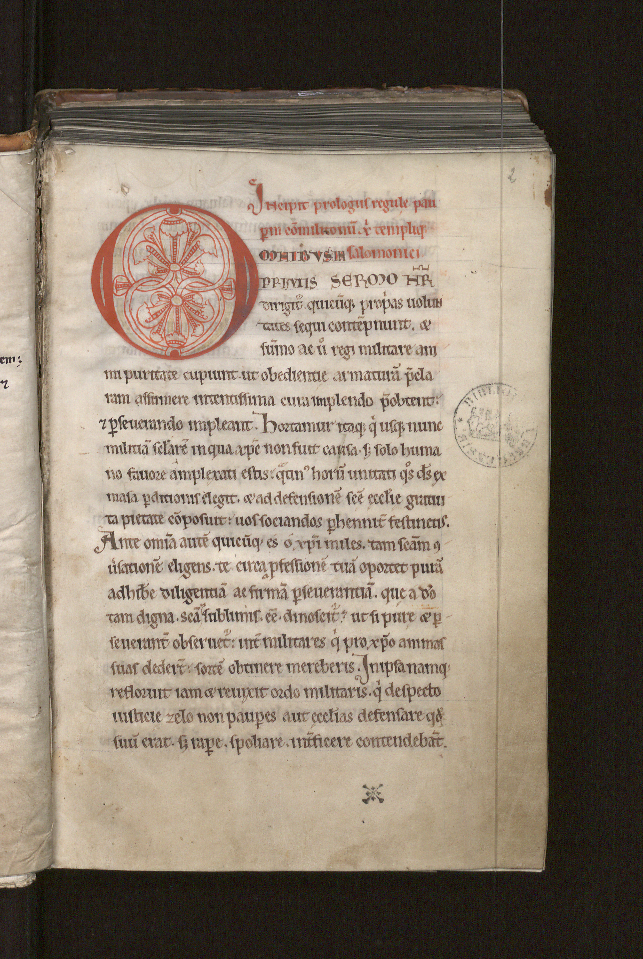 Bruges, Public Library, MS 131 f. 2r - Start of the prologue to the Rule of the Templars